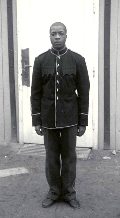 Information added by Wikimedia users.